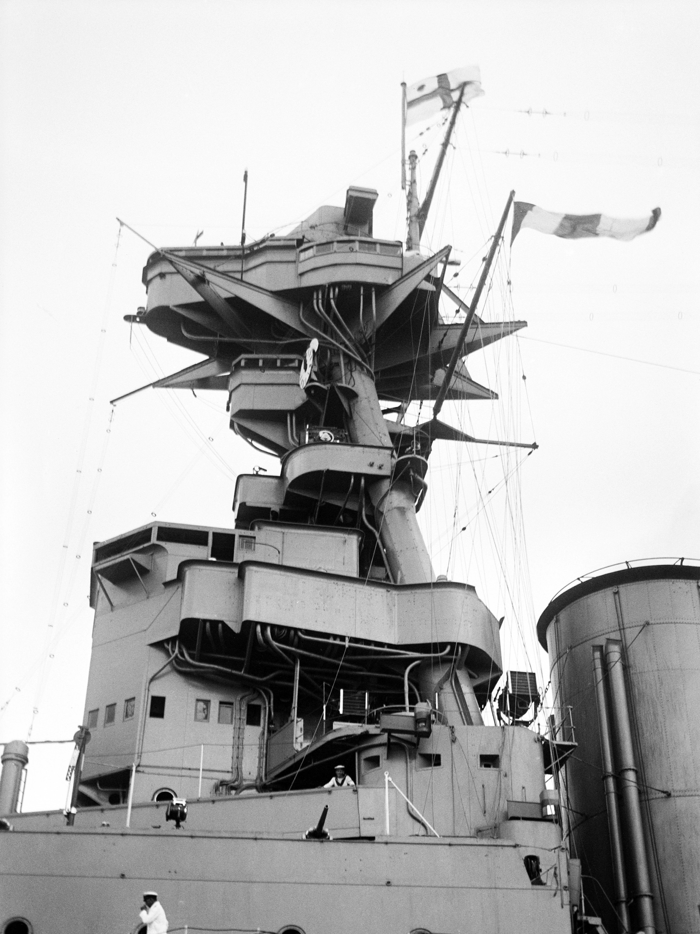 This photograph depicts a closeup of the foremast of HMS HOOD on 13 April 1924. Frederick Wilkinson took this image from a ferry while travelling on Sydney Harbour. HOOD was flagship of the Royal Navy's Special Service Squadron from 1923 to 1924. Frederick Wilkinson (1901 - 1975) migrated to Australia from England in 1911. While working various jobs in and around central Sydney, Wilkinson acquired a camera and began taking photographs of vessels and harbour scenes. Many of his images were used by commercial photographers for souvenir postcards. The ANMM undertakes research and accepts public comments that enhance the information we hold about images in our collection. This record has been updated accordingly. Photographer: Frederick Garner Wilkinson Object no. 00037687